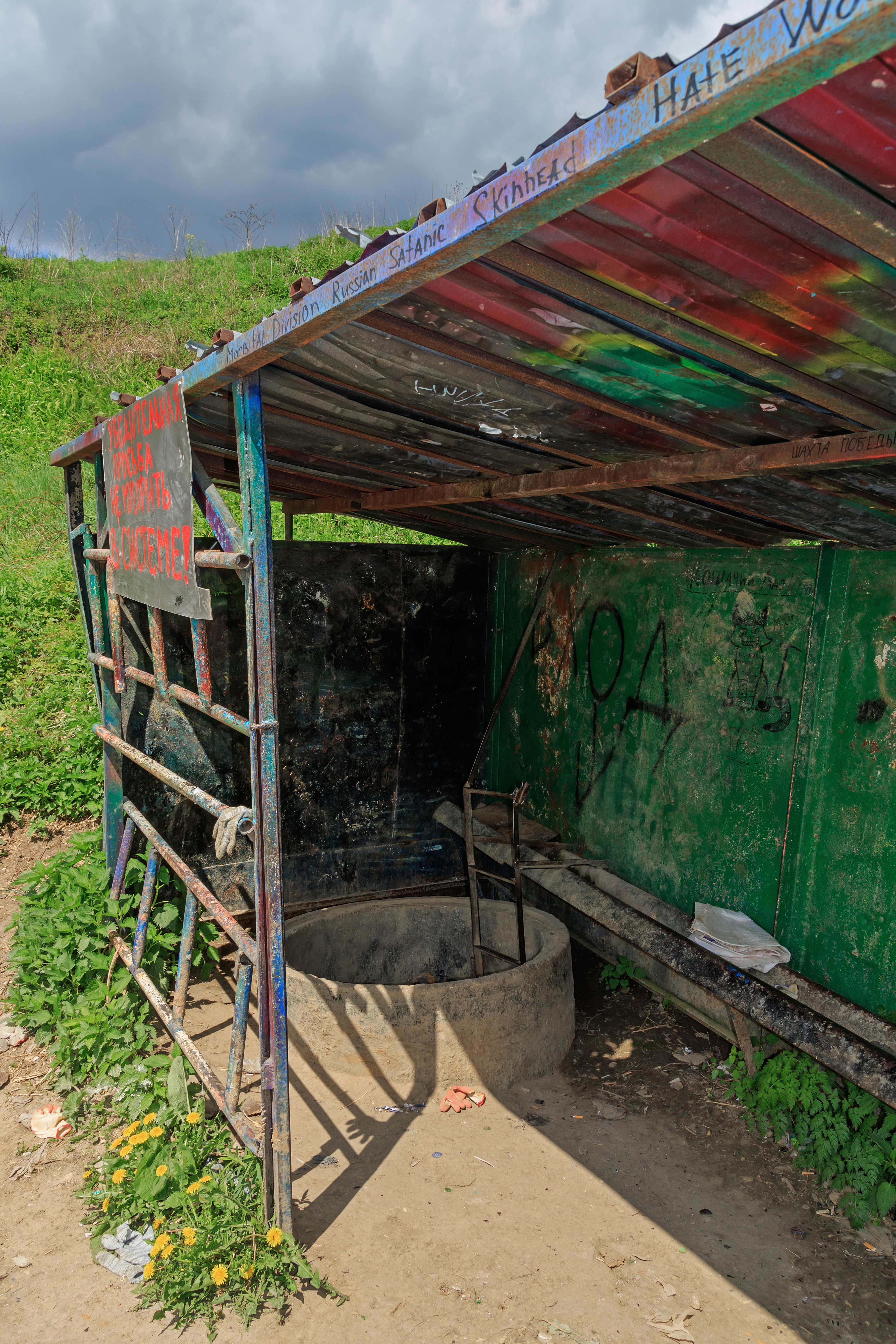 Entrance to former limestone quarries of Syany, near Domodedovo, Moscow Oblast (Russia).